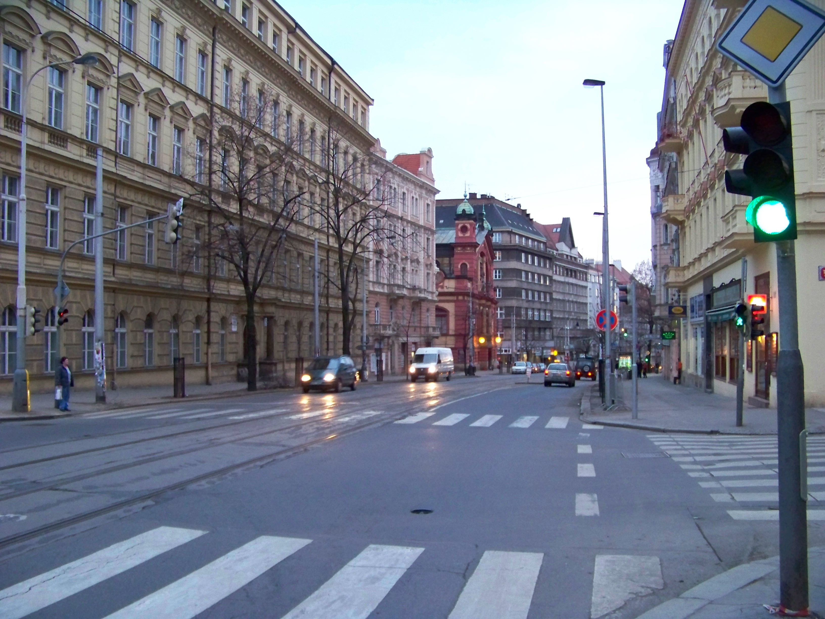 Vinohrady, Prague, the Czech Republic. Vinohradská Street.